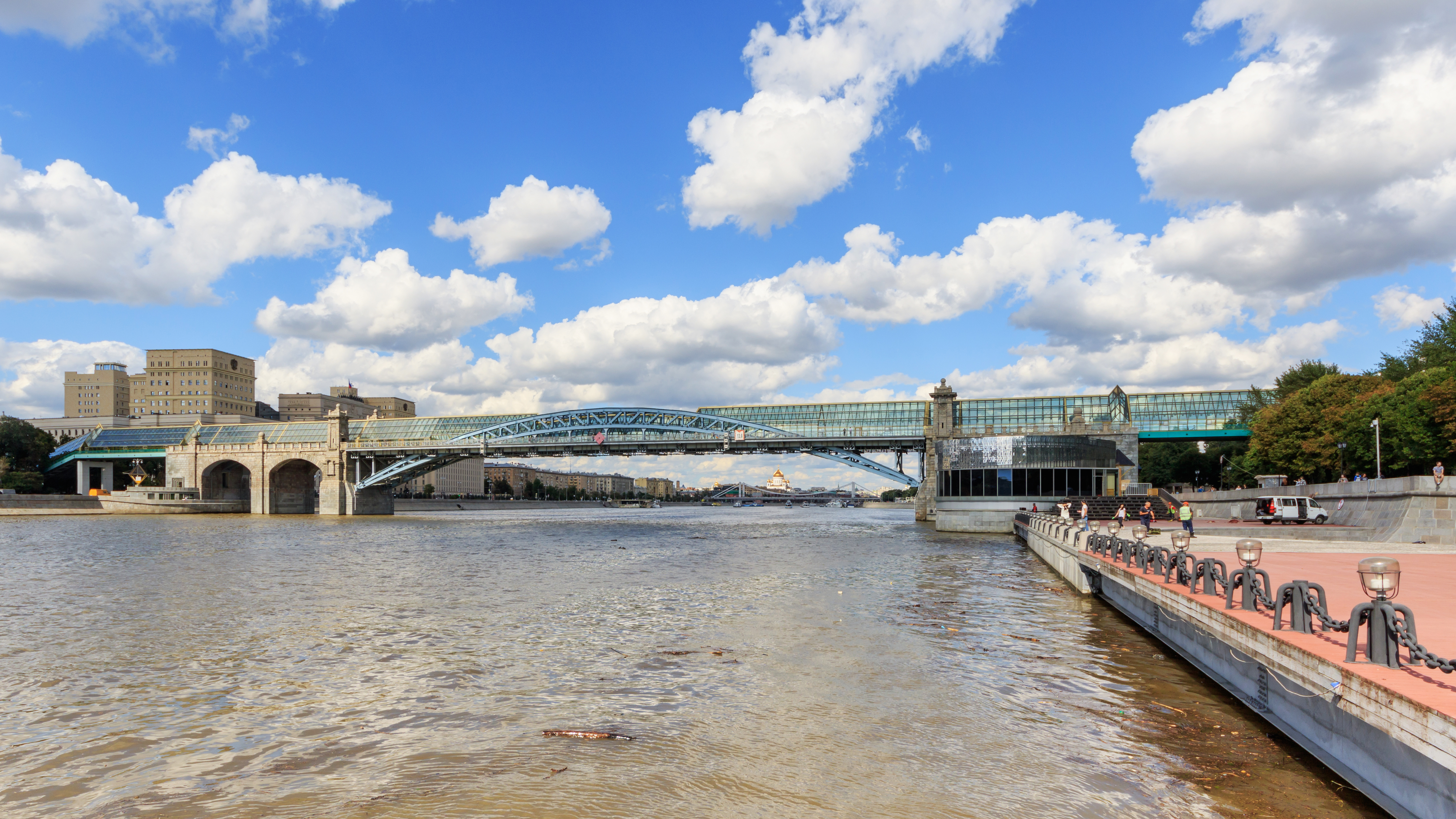 View of Pushkinsky Bridge from Neskuchny Garden. Moscow, Russia.